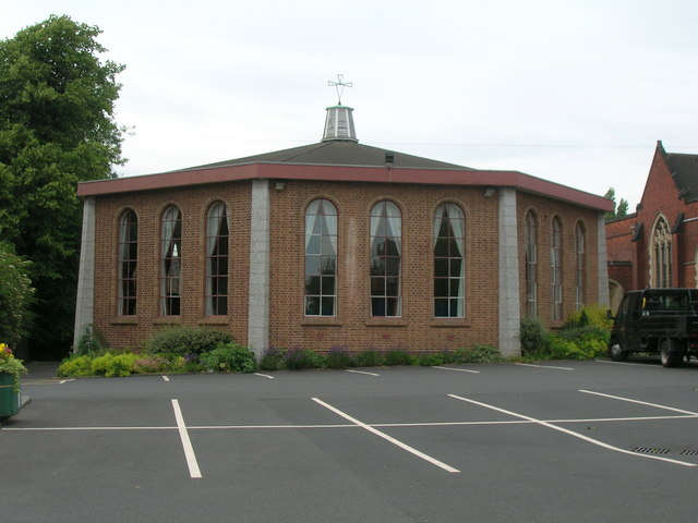 St Jude's Church Community Centre